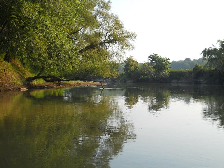 Local swimming hole located on Obion River in West TN.